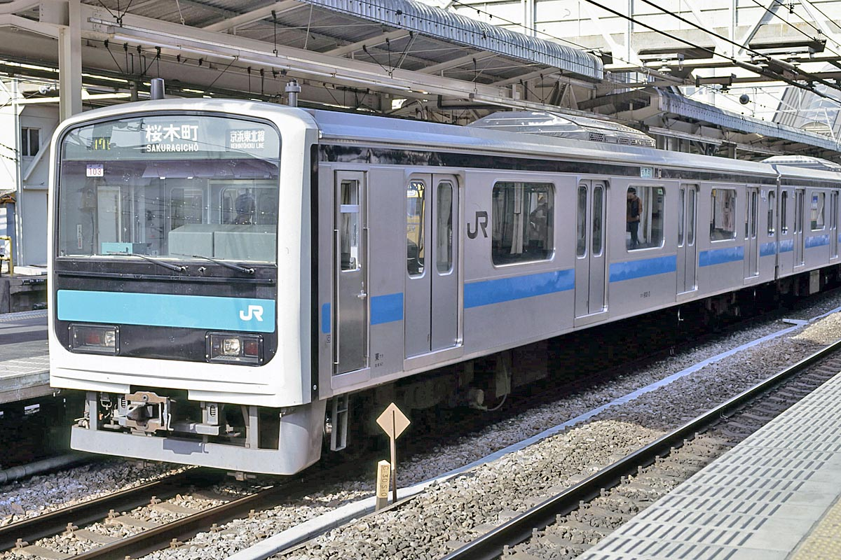 JR East 901 series Train C (later 209-920) Kuha900-3 (Taken at Kawasaki Station)